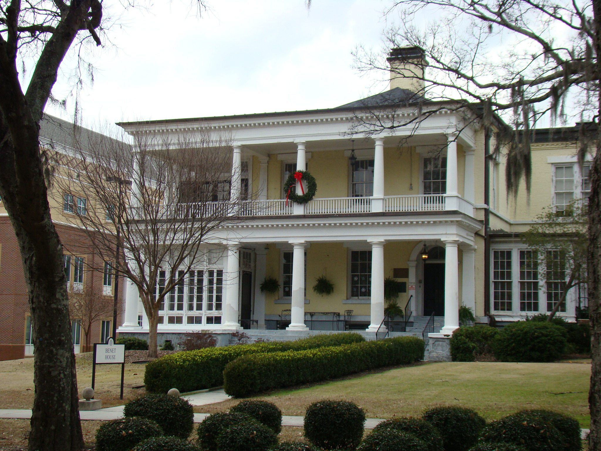 Benet House (Augusta State University, Augusta, Georgia, USA), with Christmas wreath